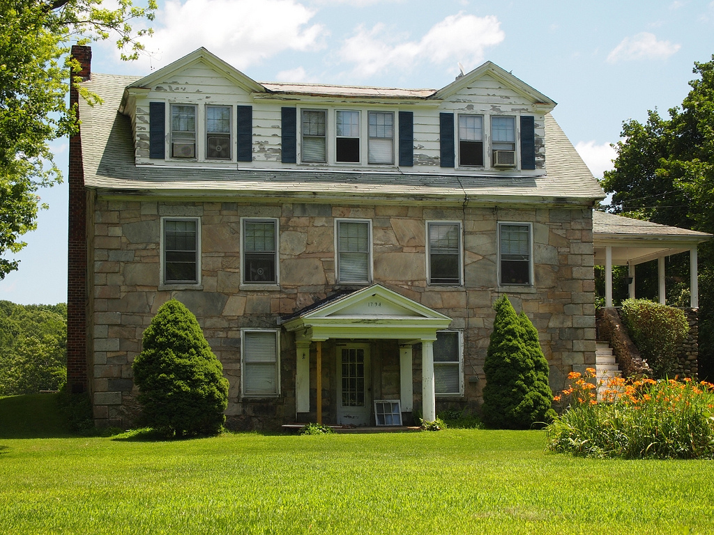 Connecticut - New London County - Waterford NRHP #02000337 NRIS 2011 Jun 30 at 153 Old Norwich Rd; view E edit: resize Built 1794 (Georgian/Colonial Revival). Private residence(s).